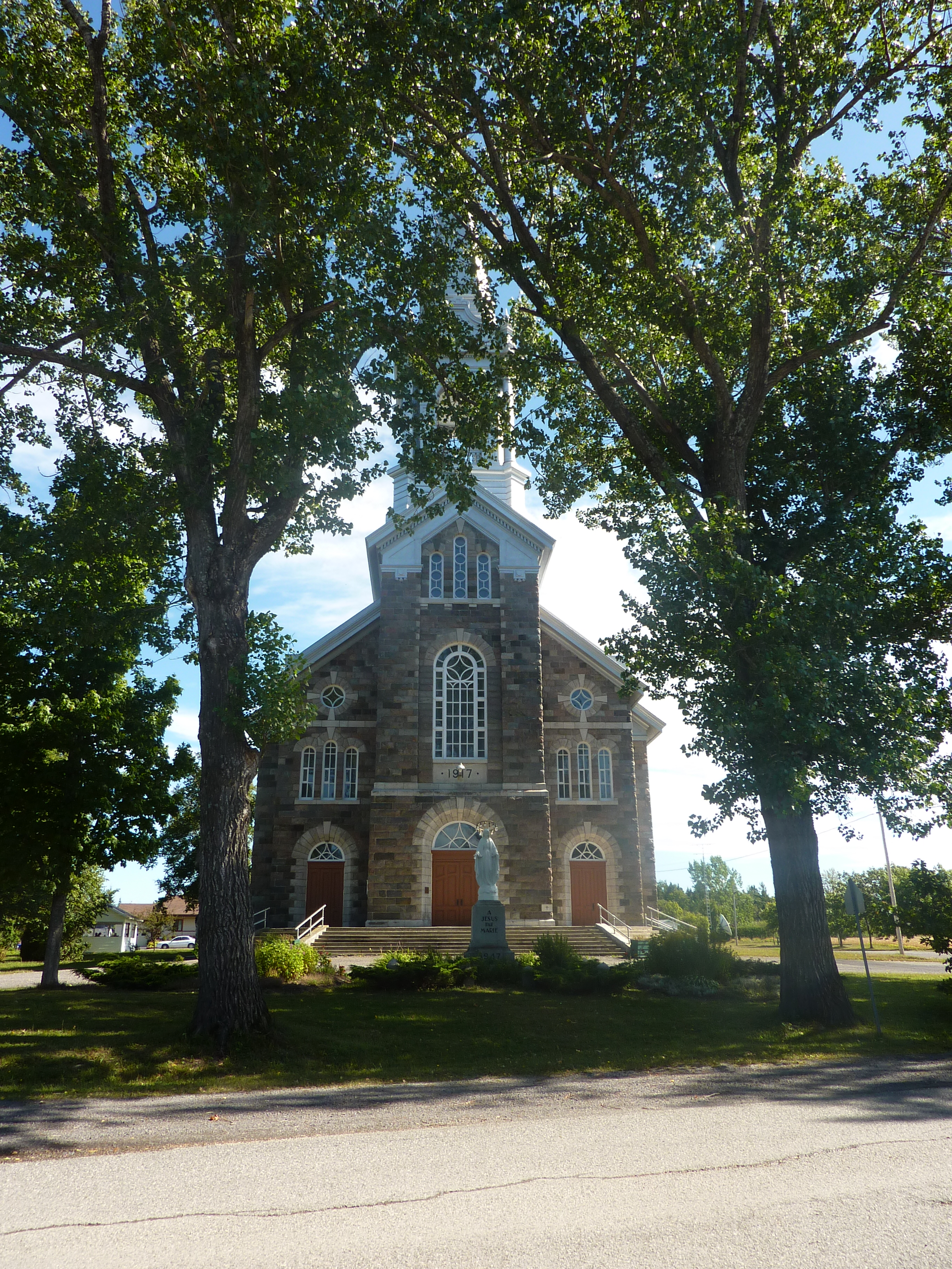 Church of Saint-Damase, Qc (La Matapédia)